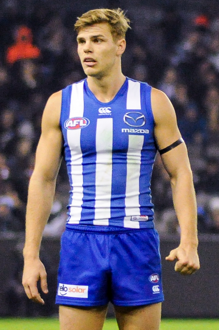 Mason Wood during the AFL round thirteen match between North Melbourne and St Kilda on 16 June 2017 at Etihad Stadium in Melbourne, Victoria.